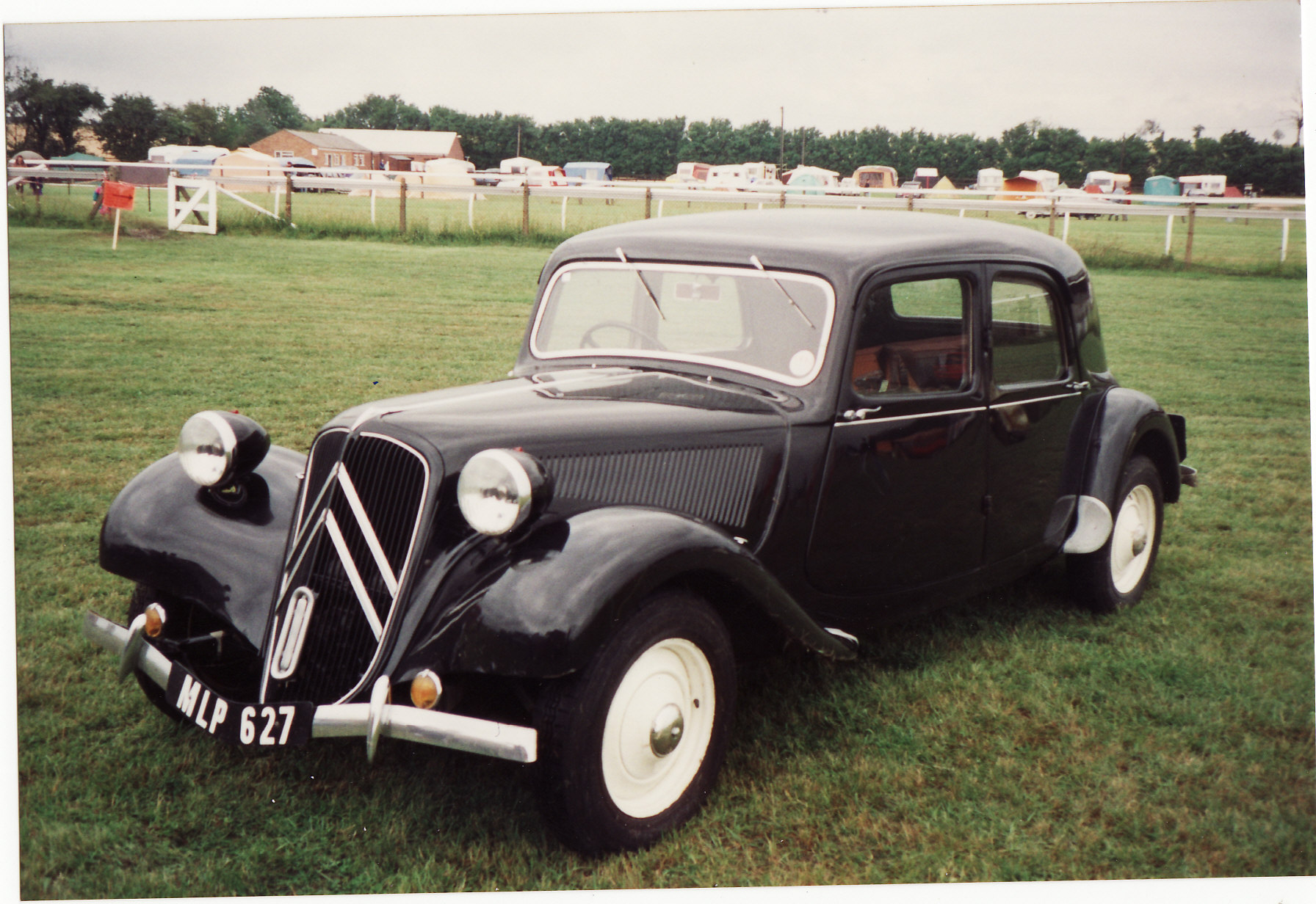 Citroen 11 Normale - Traction Avant